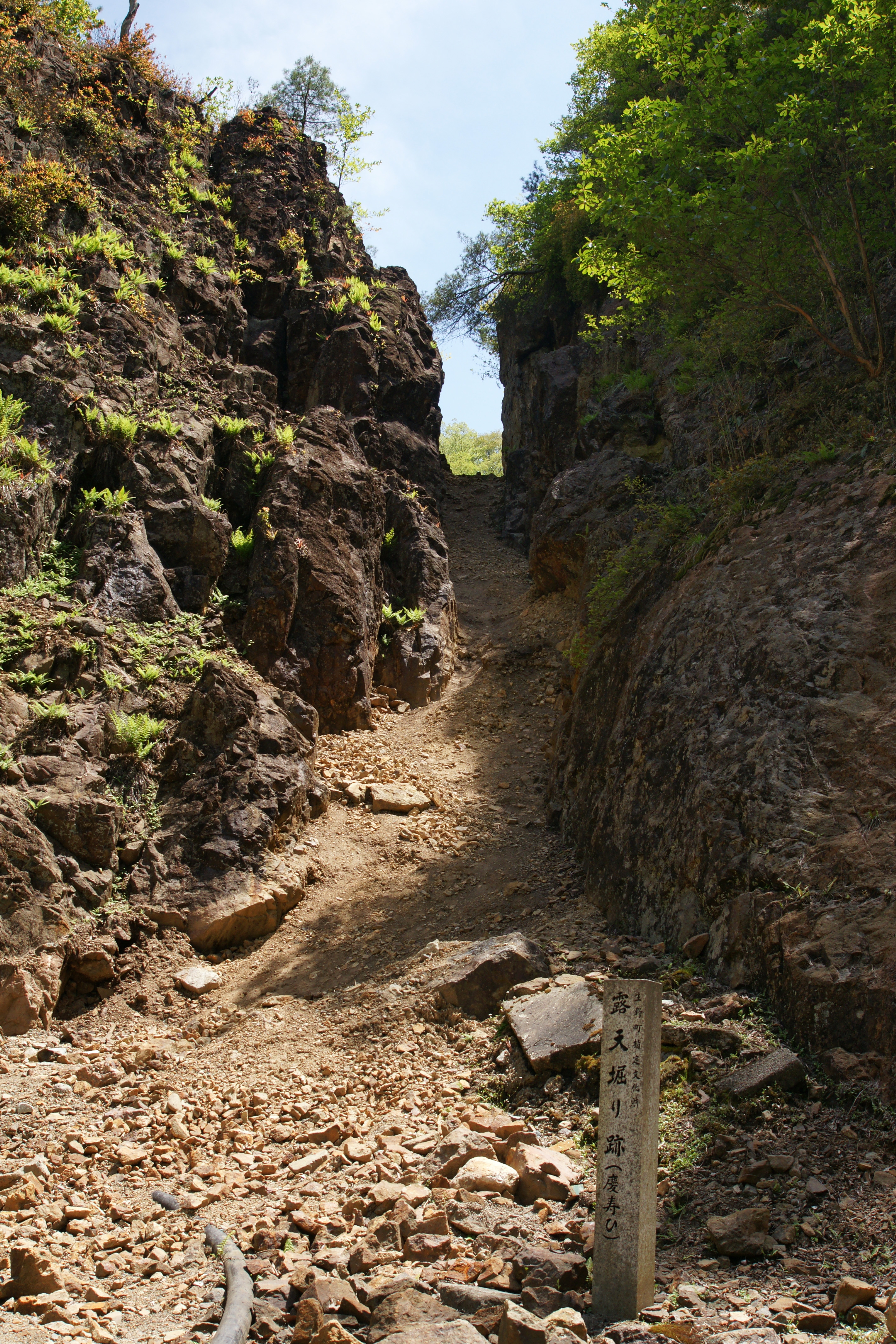 Ikuno Ginzan Silver Mine in Ikuno, Asago, Hyogo prefecture, Japan.